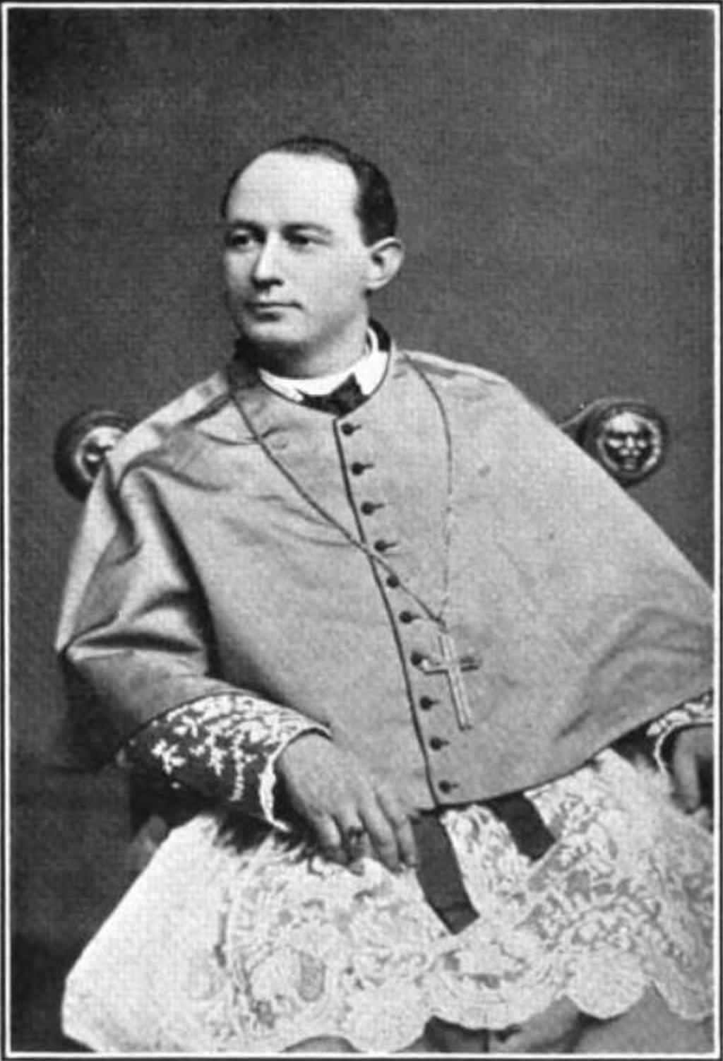 A portrait of John Shanley, first bishop of Fargo, ND, USA.